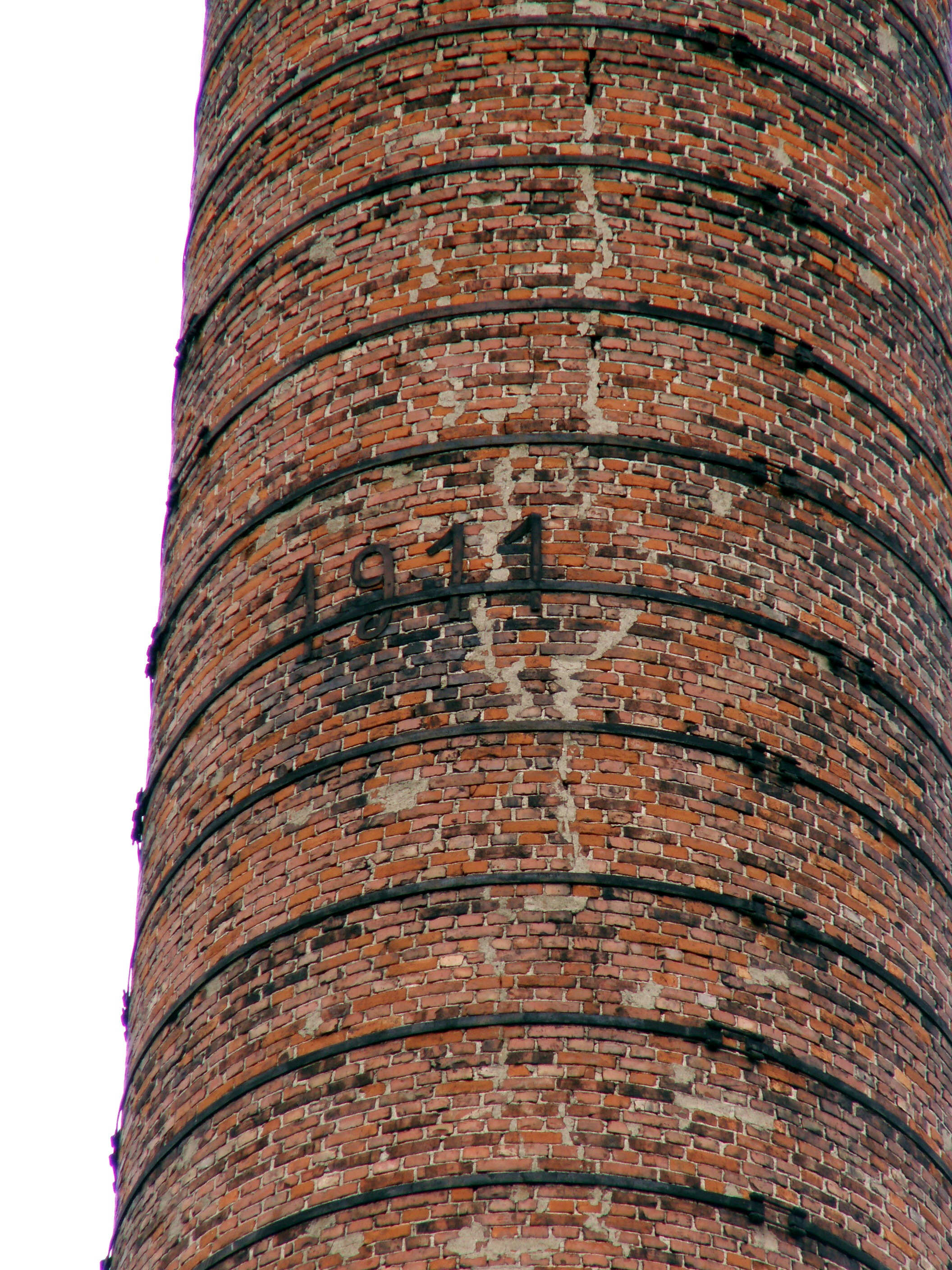 Chimney of Chaimas Frenkelis tannery in Šiauliai, construkted in 1911